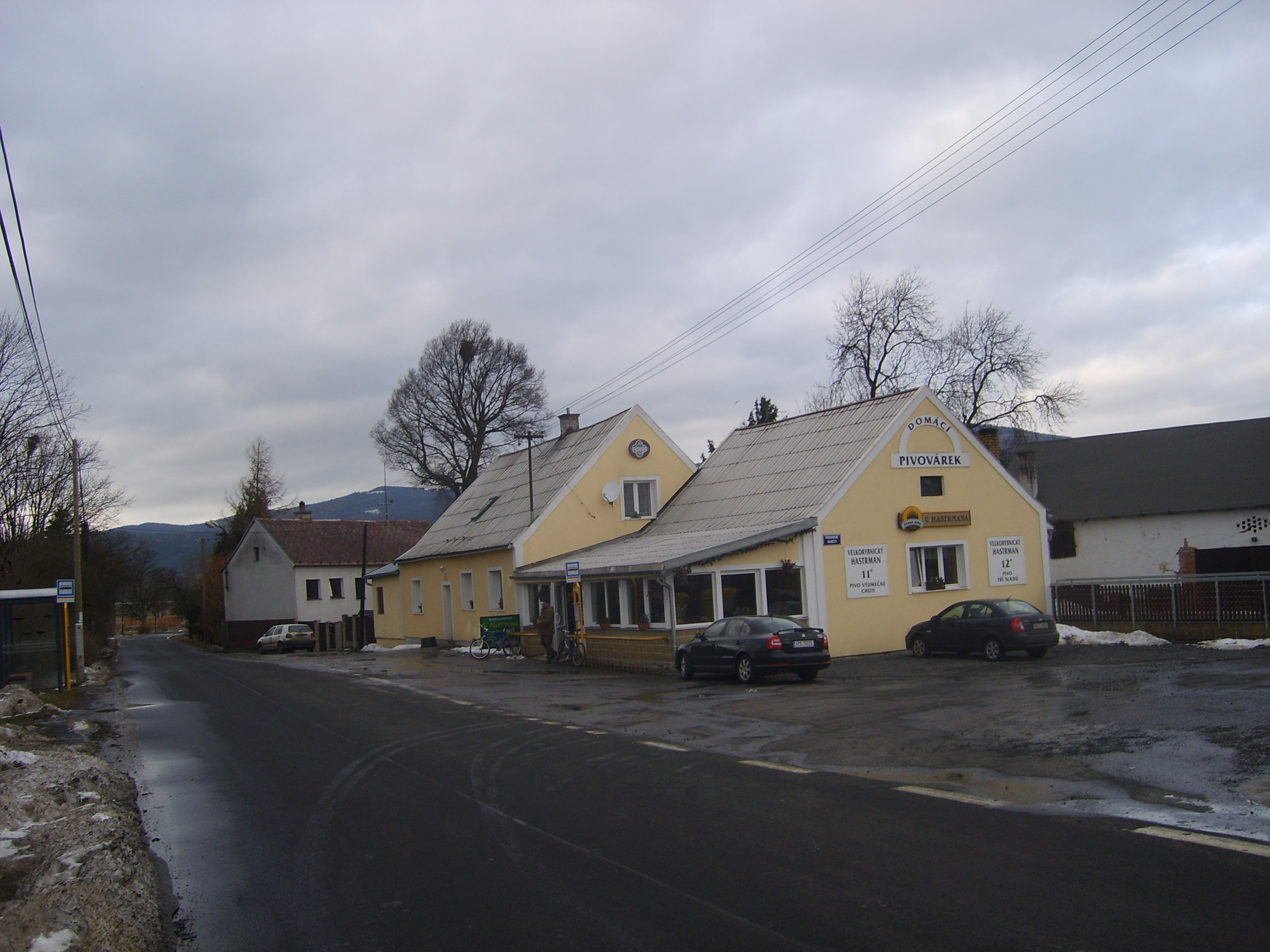 "Domácí pivovárek" ("Little Home Brewery") in the center of Velký Rybník, Czech Republic. Their beer is called Velkorybnický Hastrman ("Vodyanoy from the Great Pond")